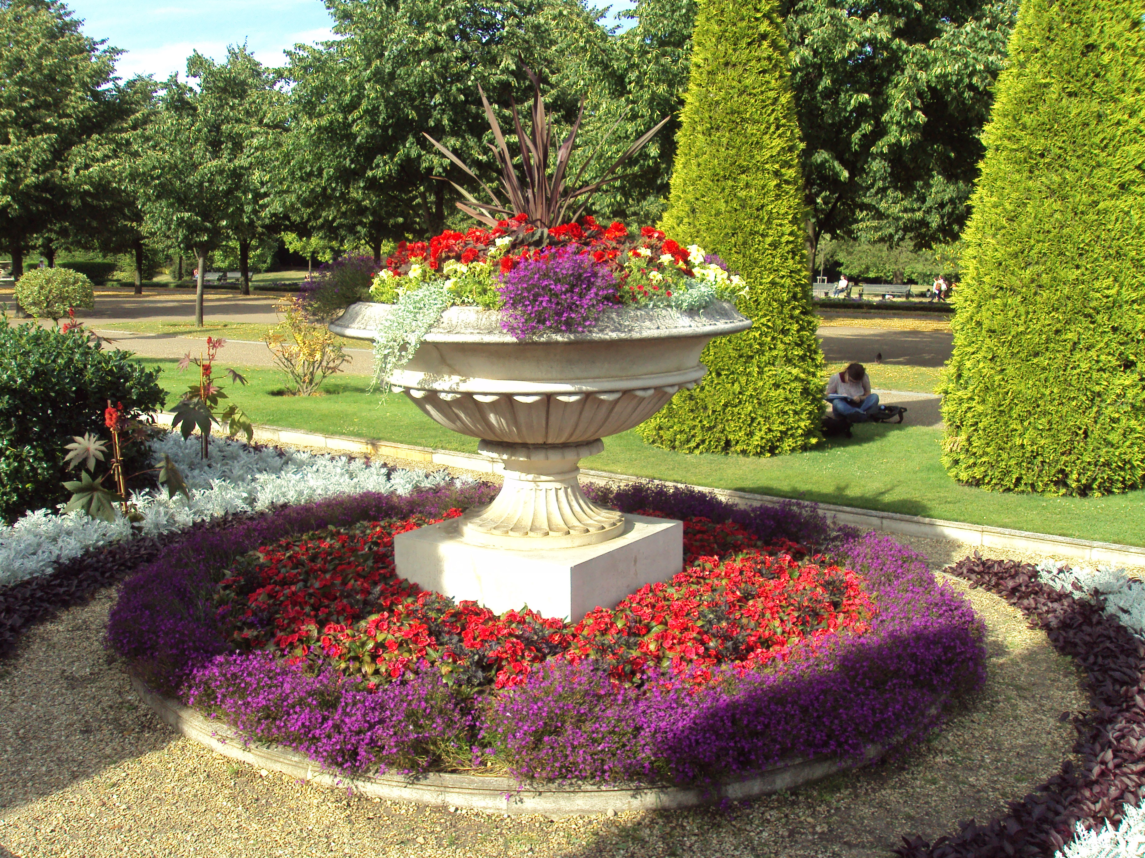 Flowers in the Avenue Gardens, Regent's Park, London.